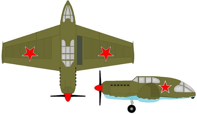 Moskaljov Sam7